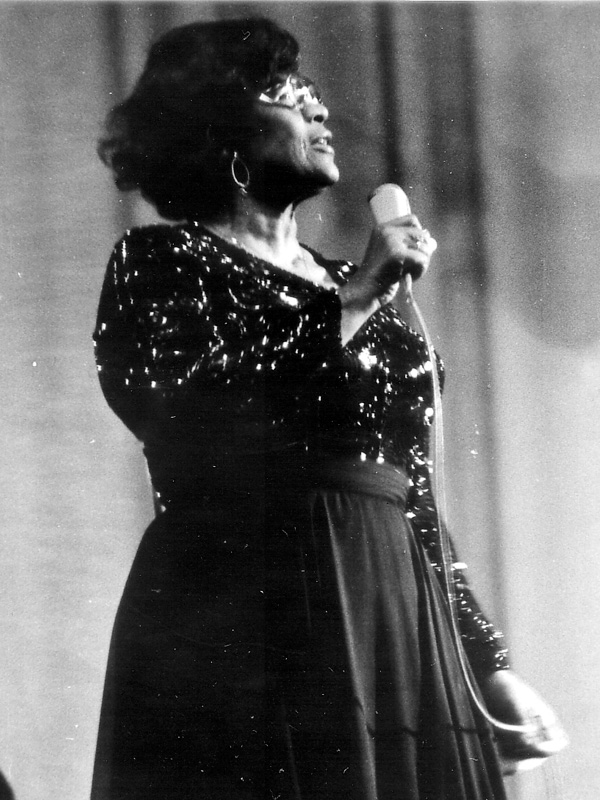 Ella Fitzgerald during a concert on October 17th 1975 in Cologne (Germany)